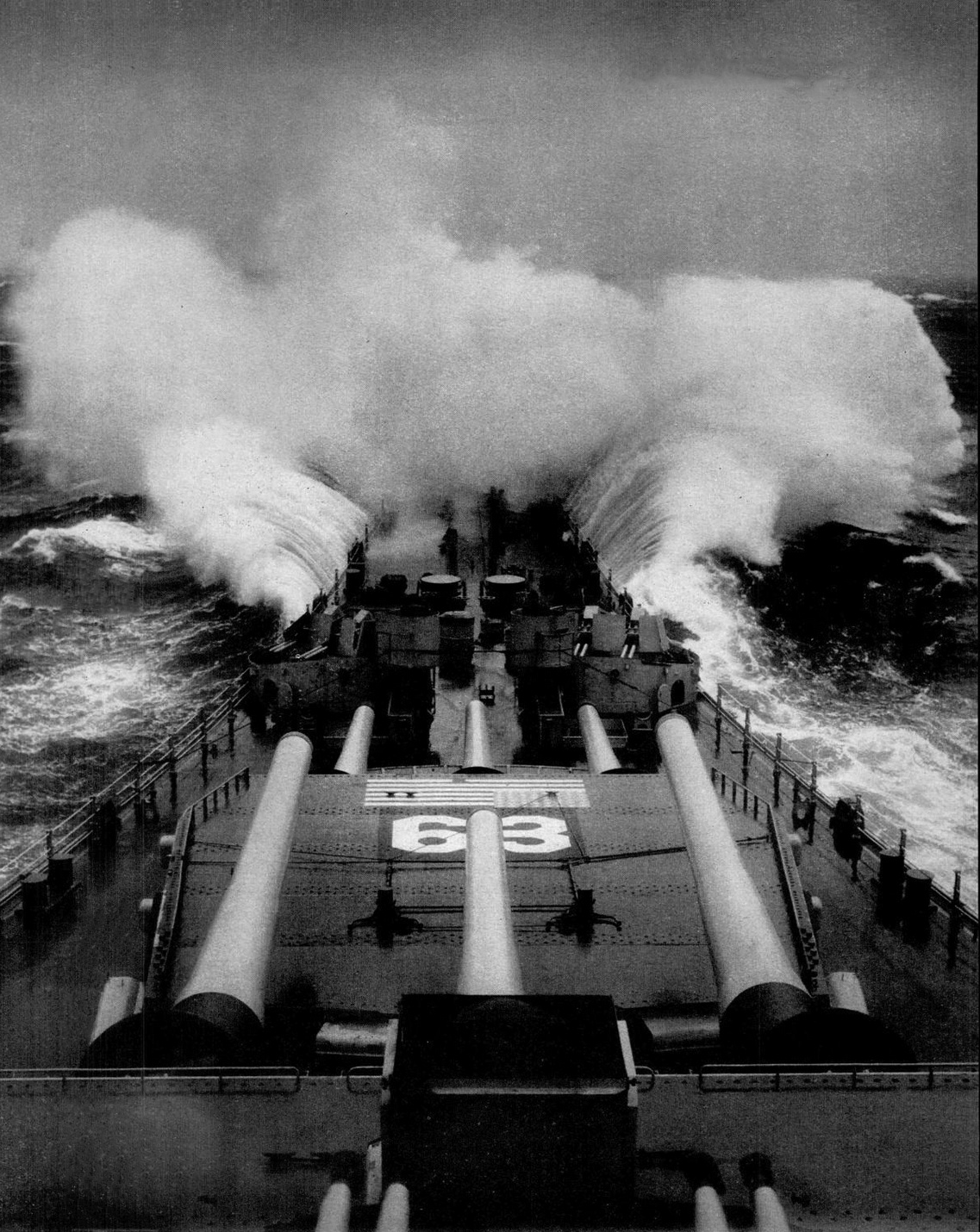 View of the forecastele of the U.S. Navy battleship USS Missouri (BB-63) in heavy seas.